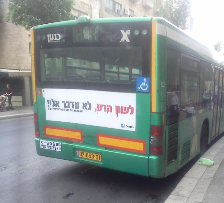 Bus in Jerusalem with ad against lashon hara (malicious speech or gossip). Text translates to "Lashon hara doesn't speak to me!"